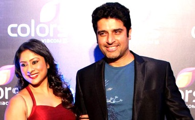 at colors bash